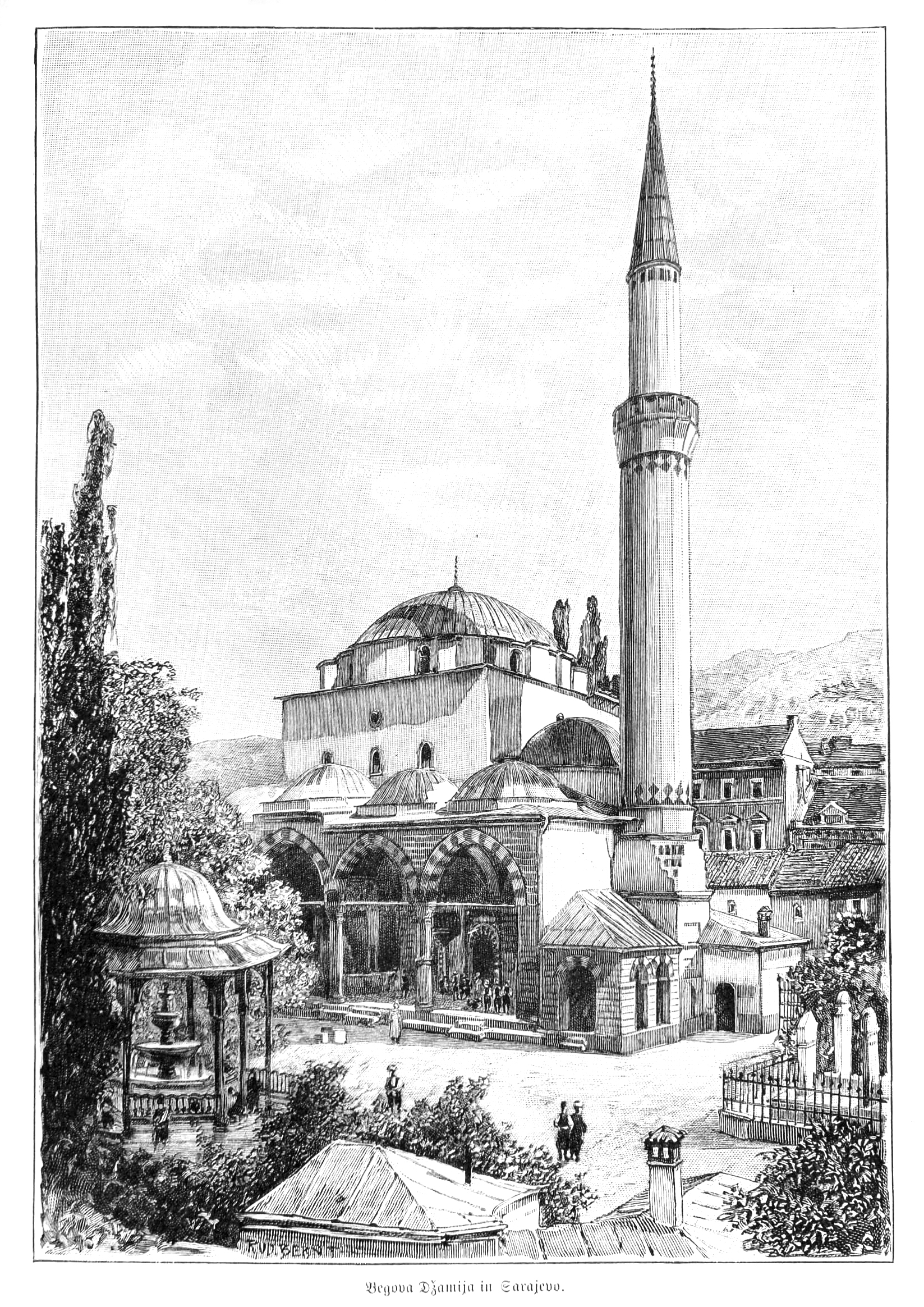 Gazi Husrev-beg's Mosque in Sarajevo approx. 1900.